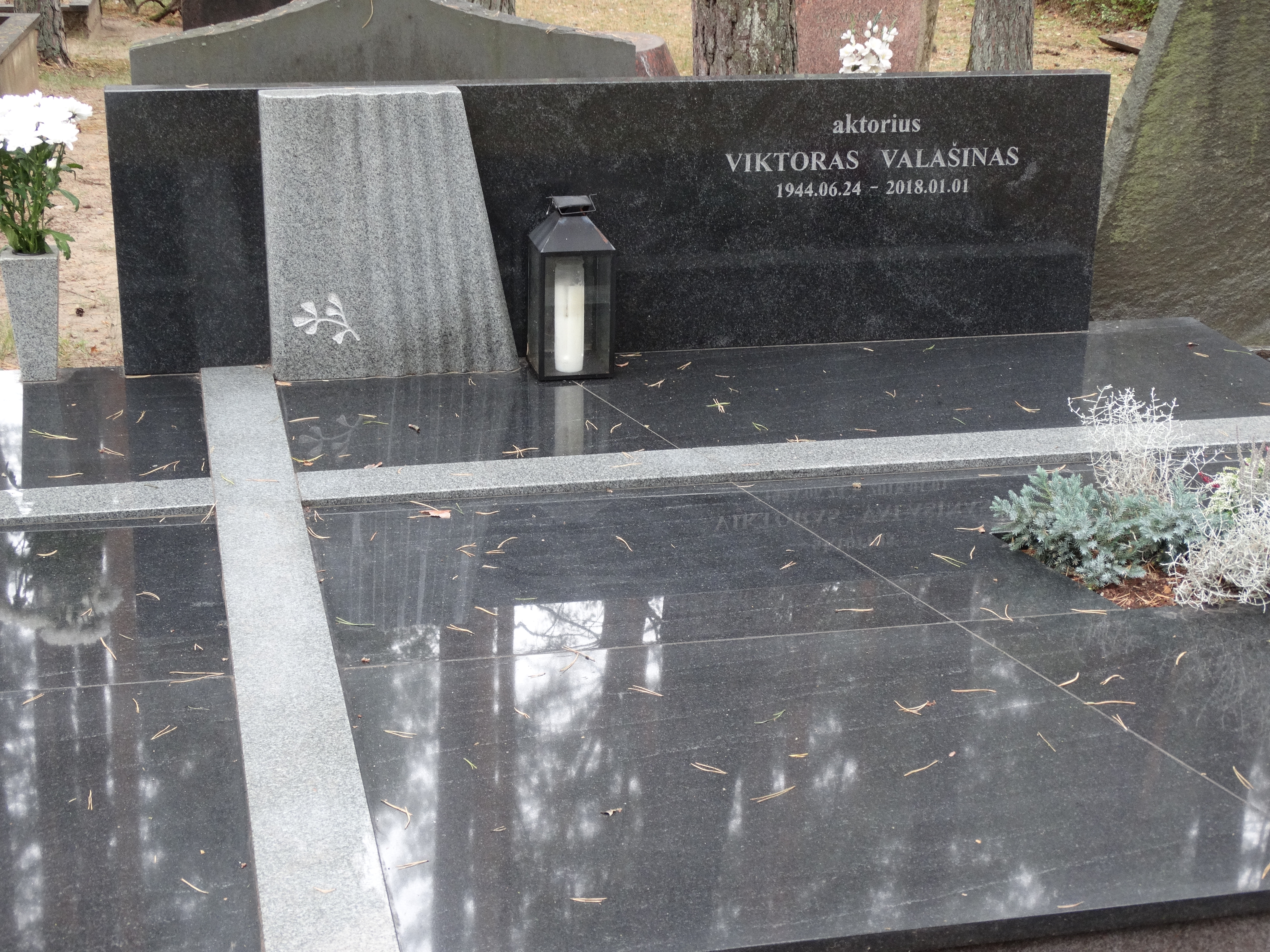 Tomb of Viktoras Valašinas, Petrašiūnai, Lithuania